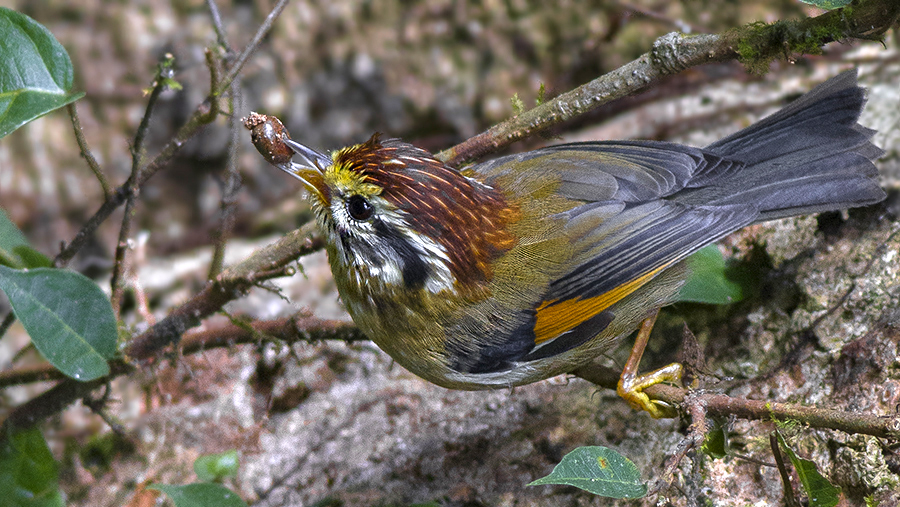 The species Rufous-winged Fulvetta had been photographed from Khangchendzonga Biosphere Reserve in West Sikkim, India on 17.02.2016. during the birding tour of GoingWild.